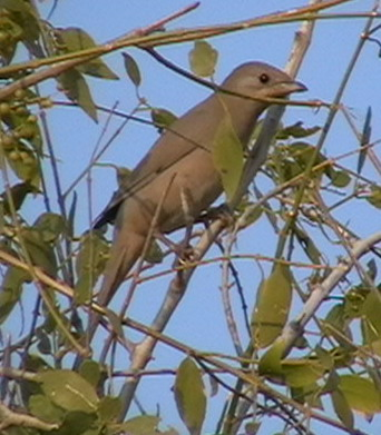 Hypocolius, a winter visitor in small numbers.